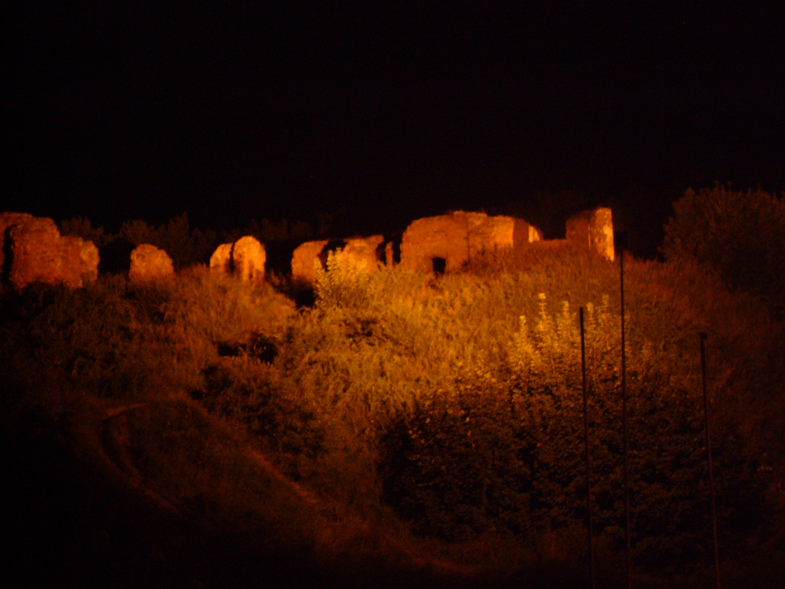 Sochaczew - the ruins of Masovian Dukes Castle